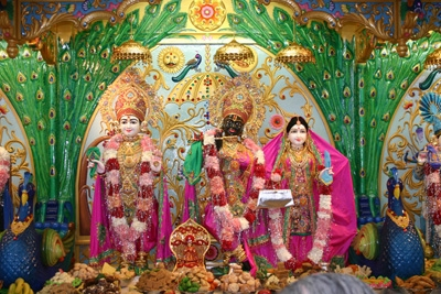 Murtis at Swaminarayan Temple Cleveland Licensing Category:Swaminarayan Images